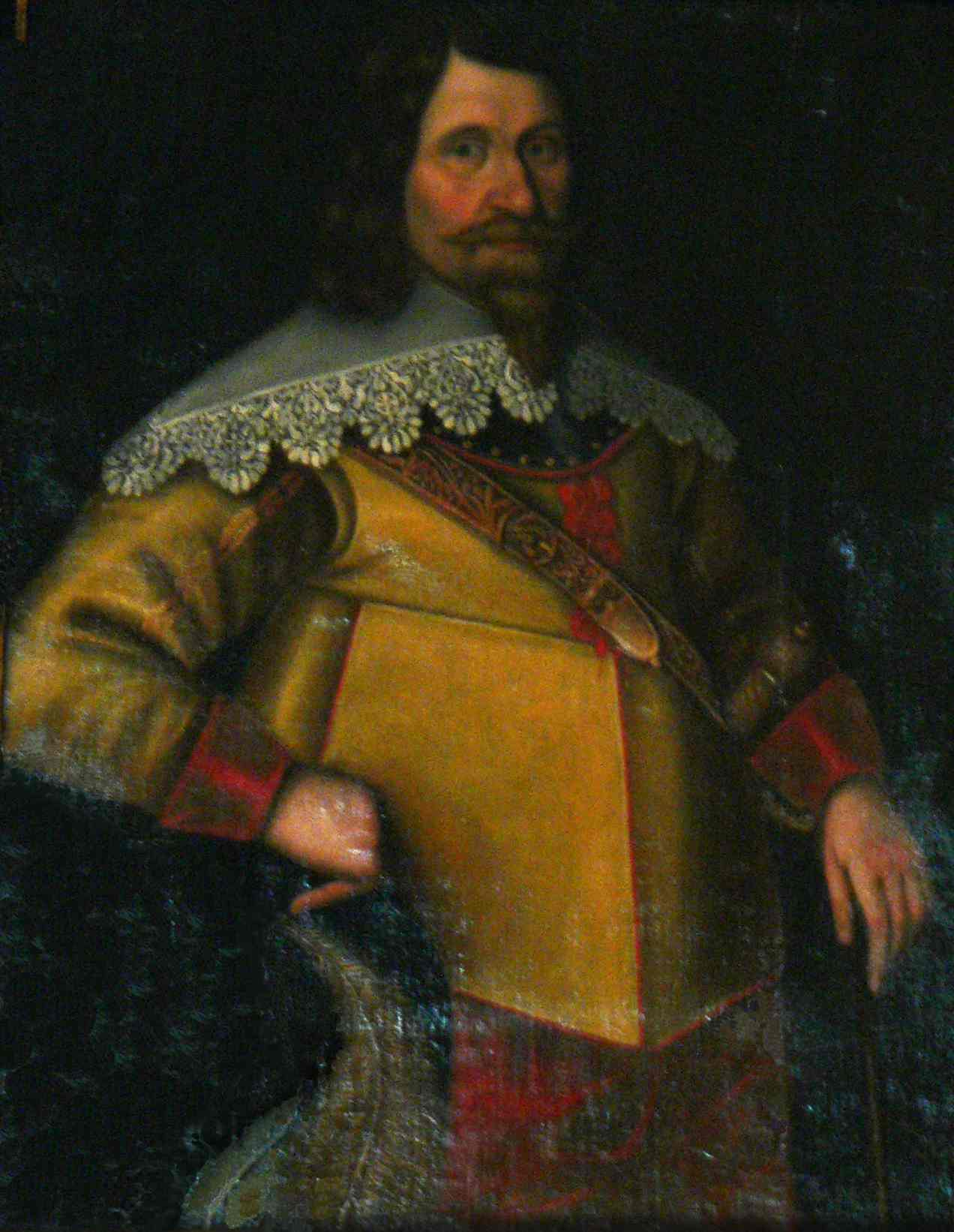 Portrait of Daniel Jonsson (1599-1664)